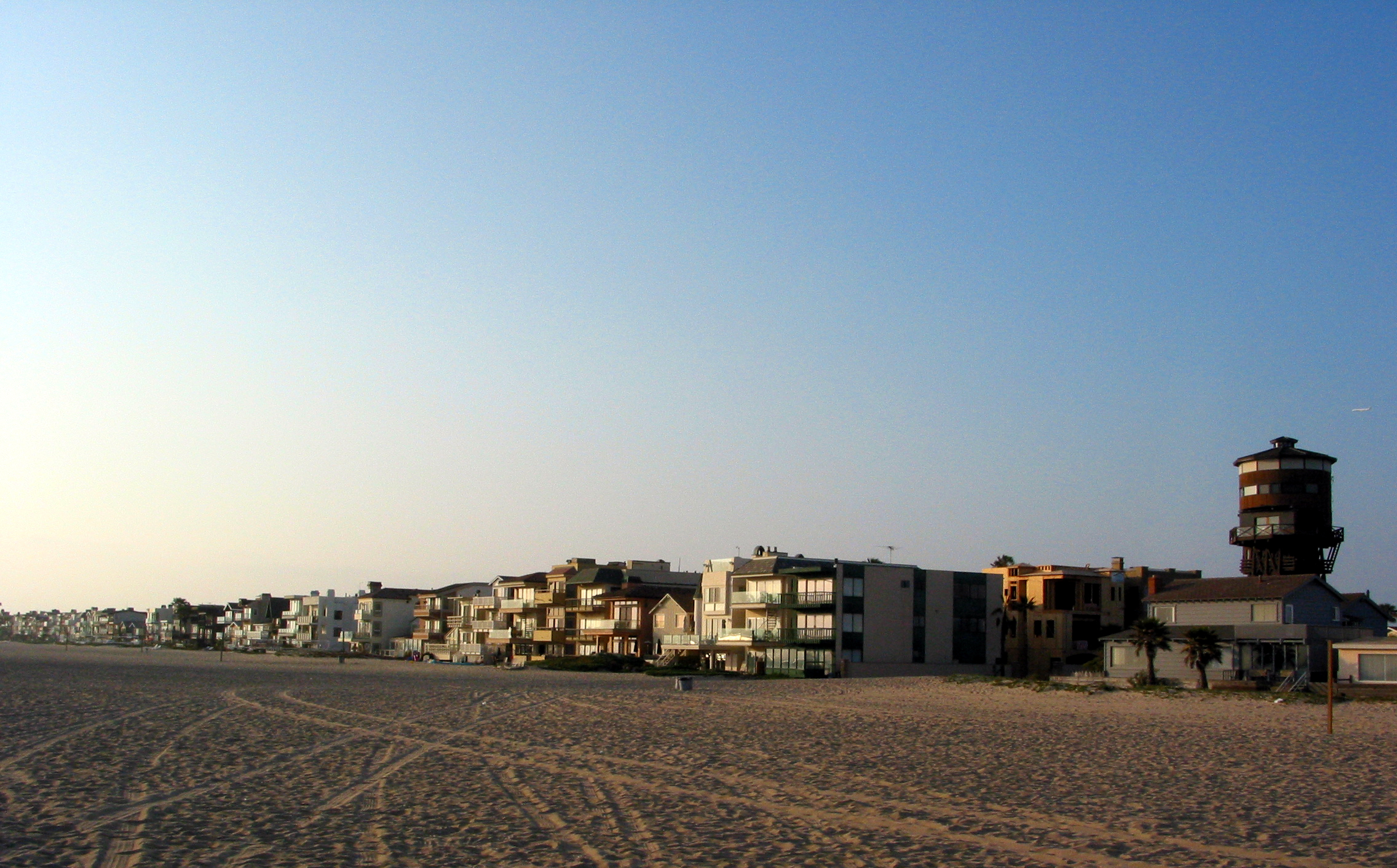 This is a photo of Surfside, CA.